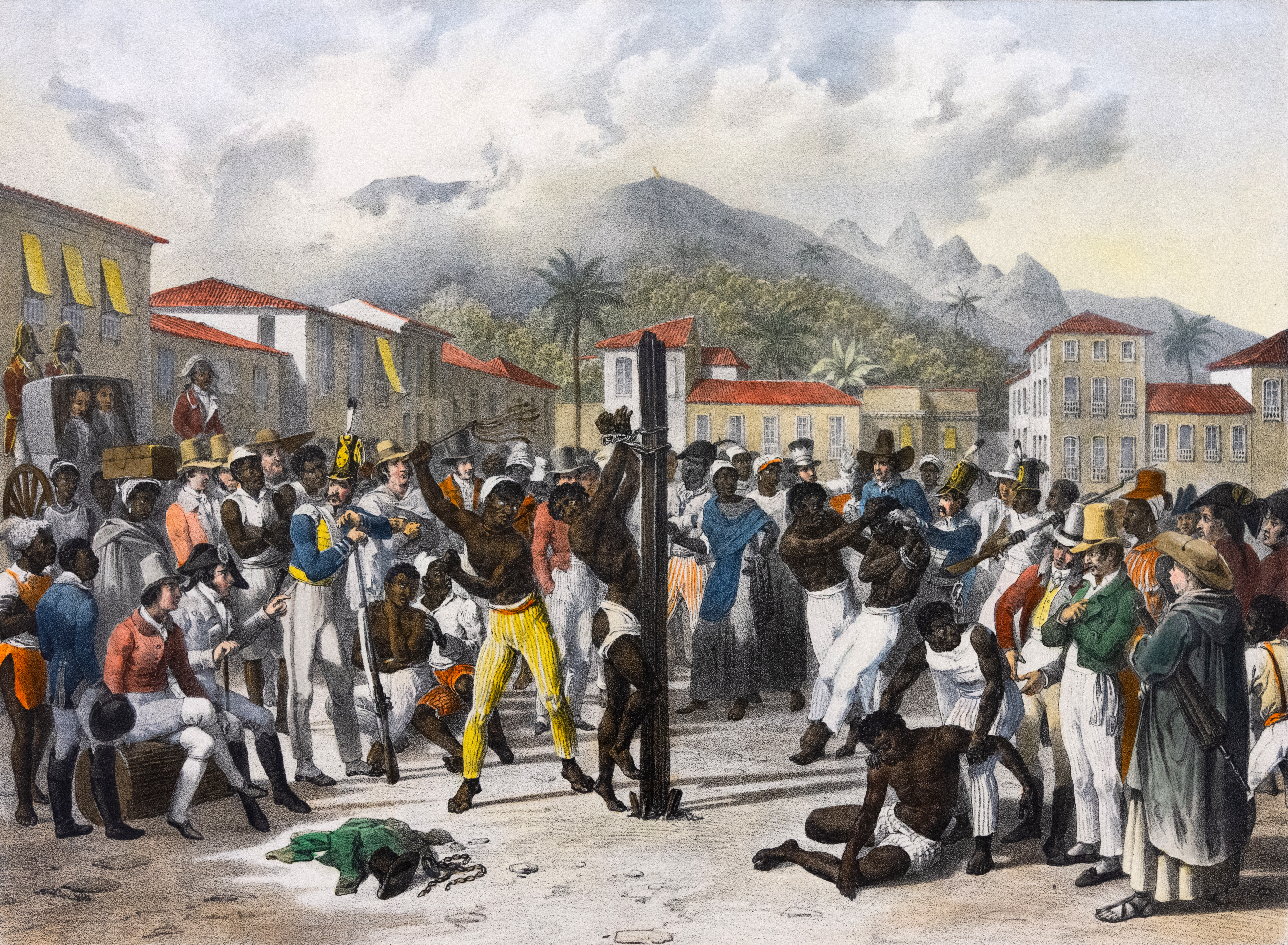 For an analysis of Rugendas' drawings, as these were informed by his anti-slavery views, see Robert W. Slenes, African Abrahams, Lucretias and Men of Sorrows: Allegory and Allusion in the Brazilian Anti-slavery Lithographs (1827-1835) of Johann Moritz Rugendas (Slavery & Abolition, pp. 147-168).'